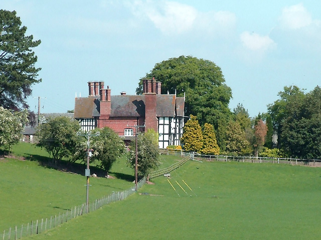 Moss Hall near Audlem, Cheshire A telephoto view looking across the grass fields from the canal towpath. The house is about four hundred metres from the camera position. Moss Hall is a Grade I listed manor house. The building dates from 1616 and it was extensively renovated in 1902.